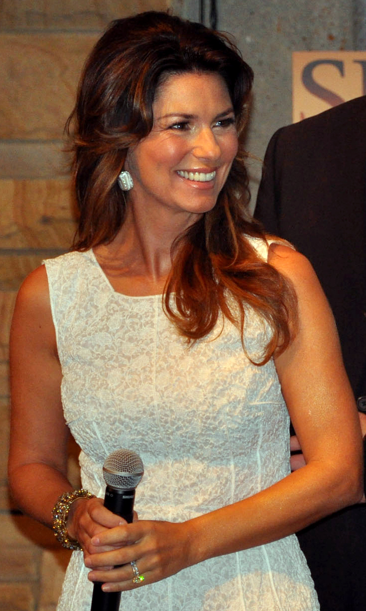 Shania Twain at a Country Music Hall of Fame press conference announcing a two-year residency at Caesar's Palace in Las Vegas.